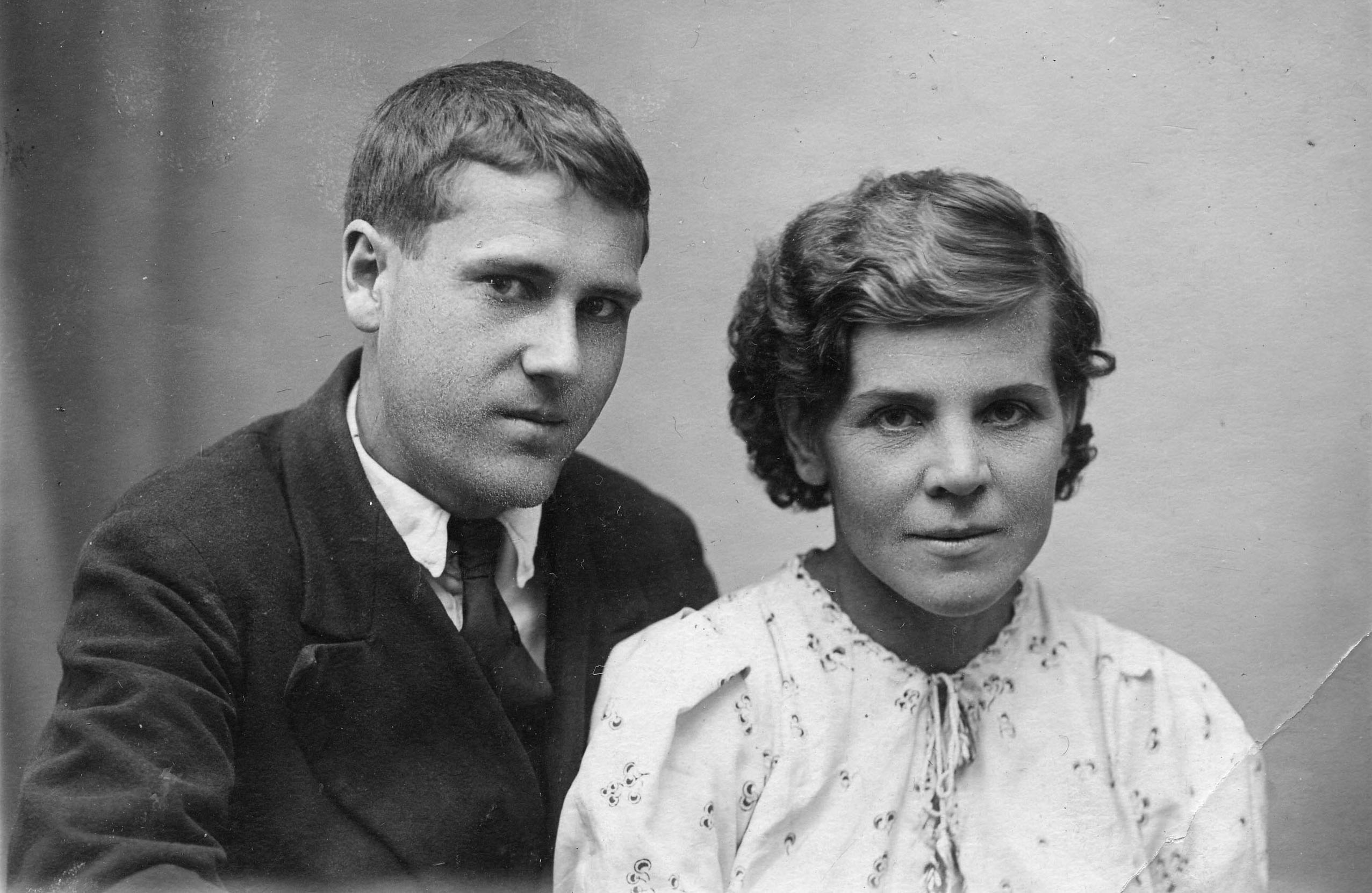 Russian scientist Vigorov, Leonid Ivanovich and his wife Tribunskaya, Anastasiya Yakovlevna. 1939. Voronezh. USSR